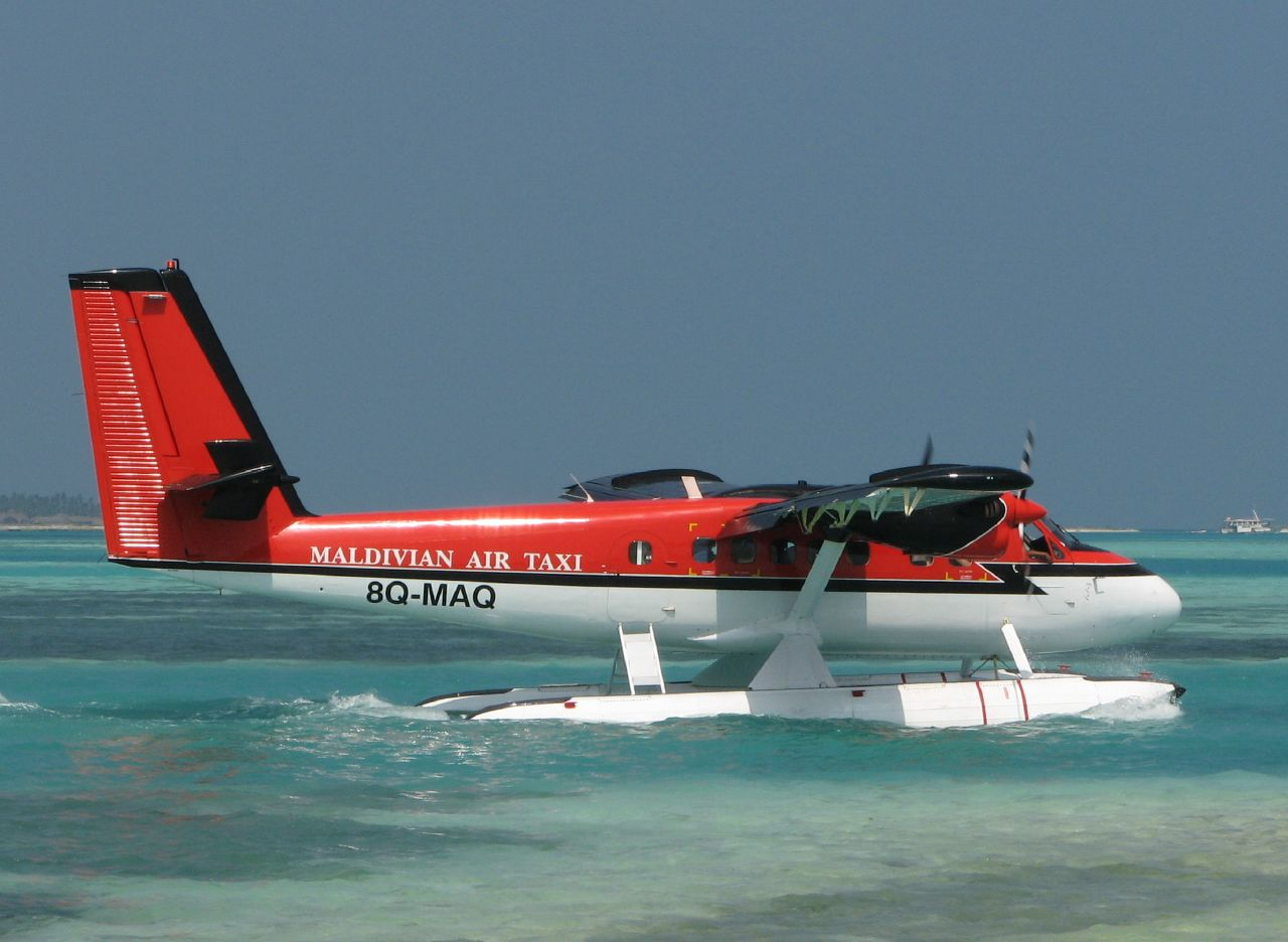 Maldivian Air Taxi Twin-Otter on the eastern lagoon at Male International Airport.